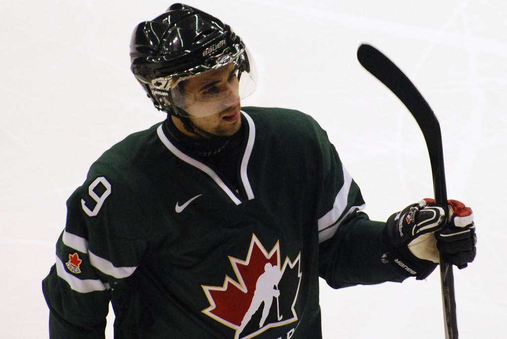 Kadri at the 2010 world juniors